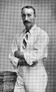 Cricket player Hugh Rotherham, c. 1895